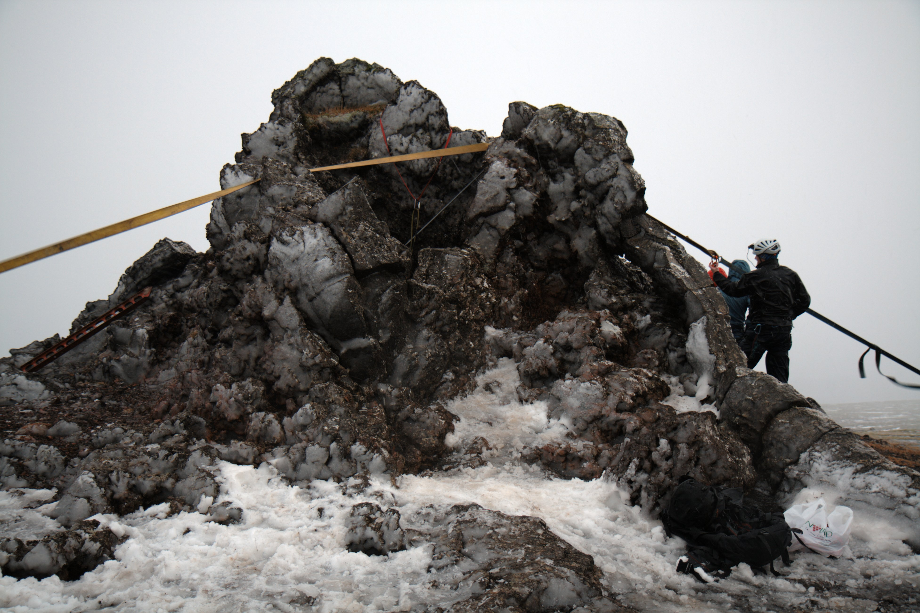 The cave opening of Tintron